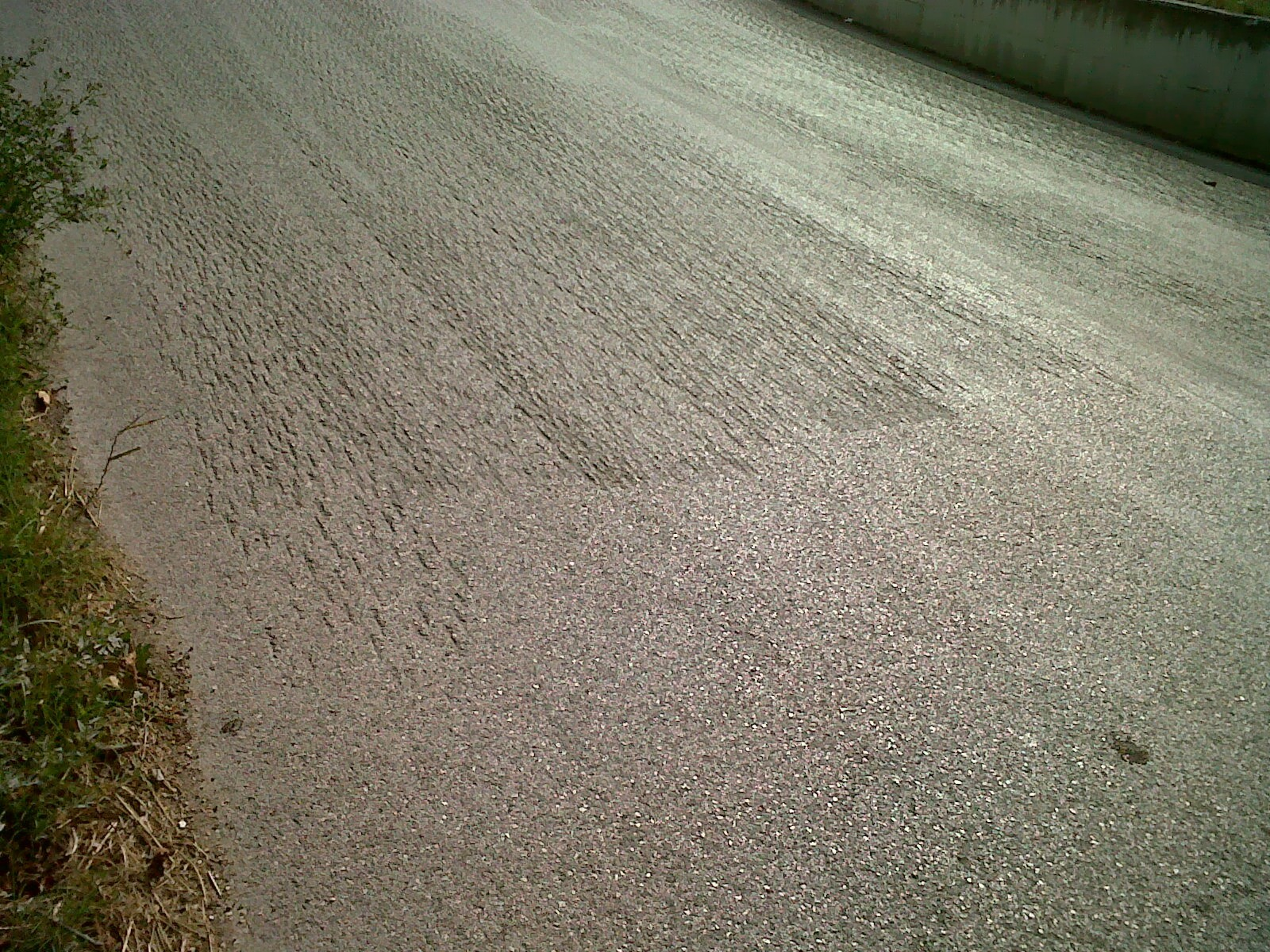 asphalt road surface with a milling process to improve adherence in wet track conditions